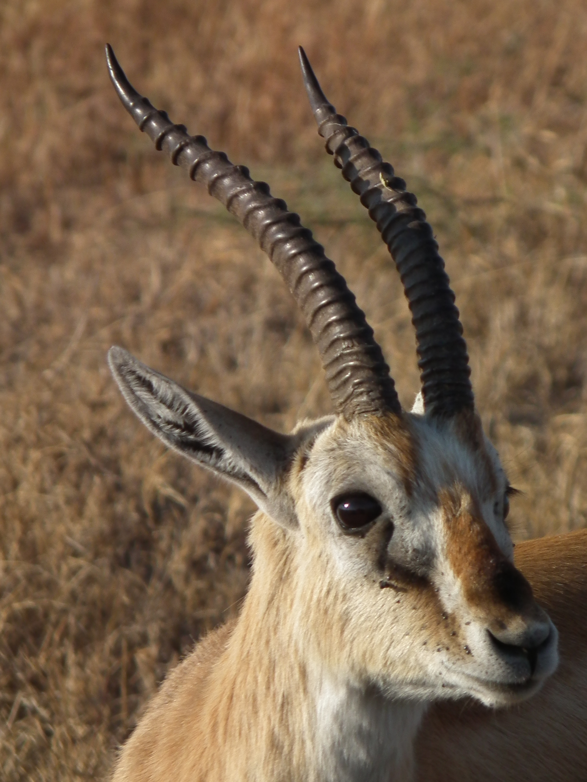 Thomson's Gazelle, Gazella thomsonii, picture taken in Tanzania